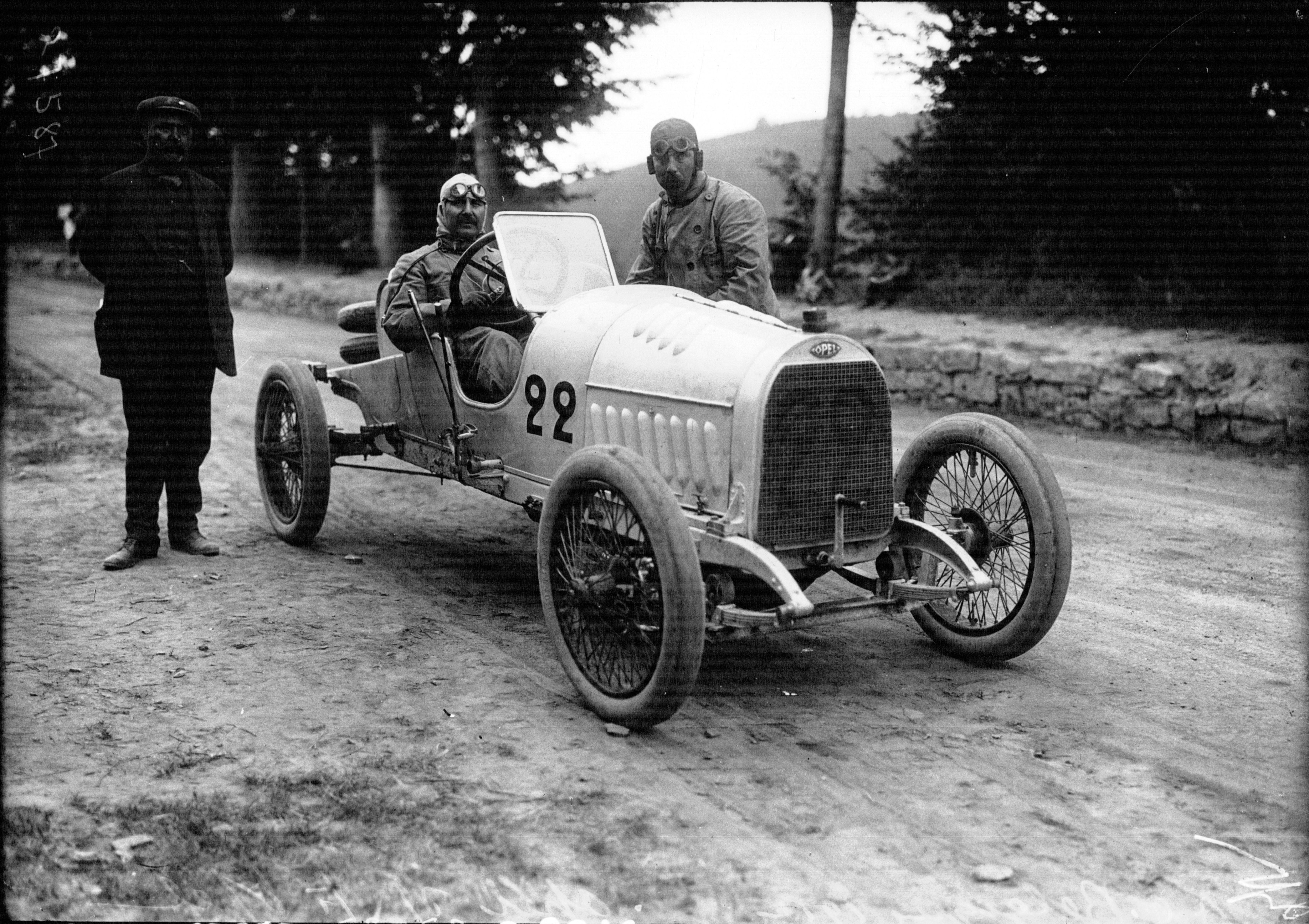 Friedrich (Fritz) Opel at the 1912 Belgian Grand Prix.